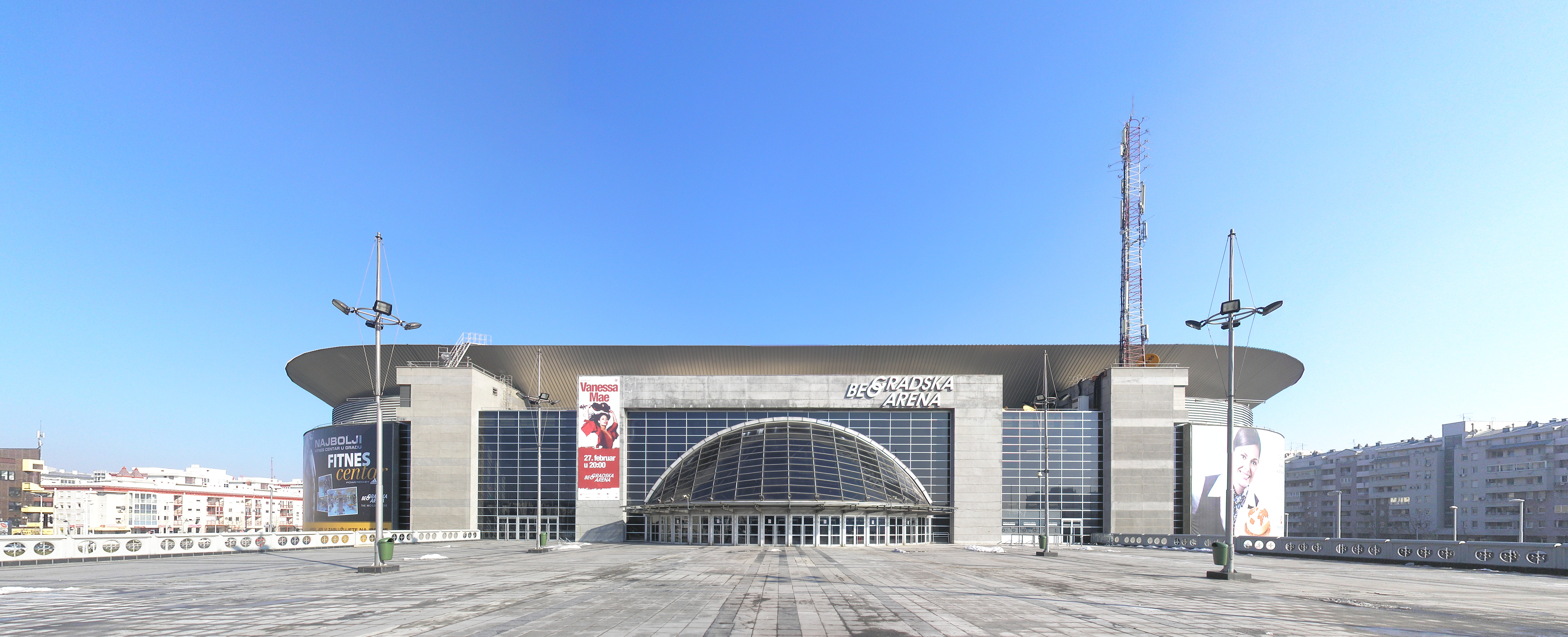 South entrance to Belgrade Arena. Photo 1 in Feb 2011.